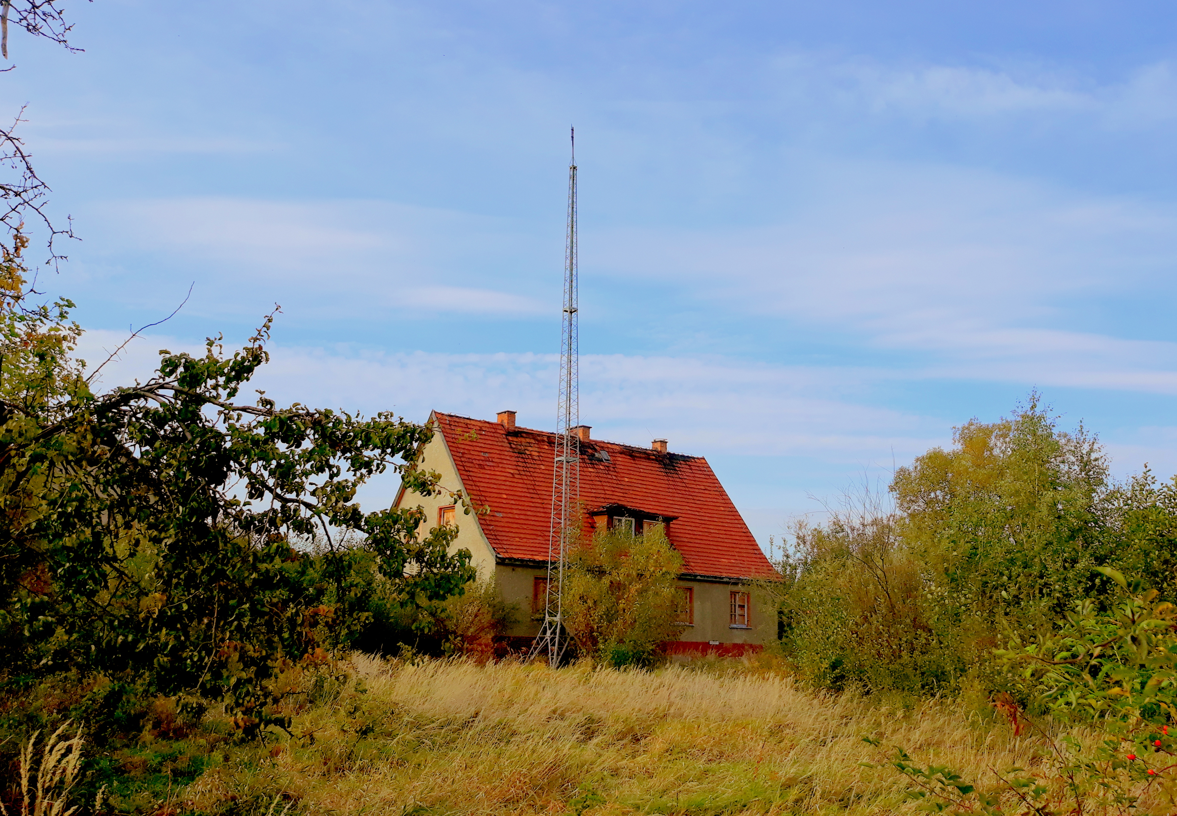 Border Protection Forces in Bliszczyce